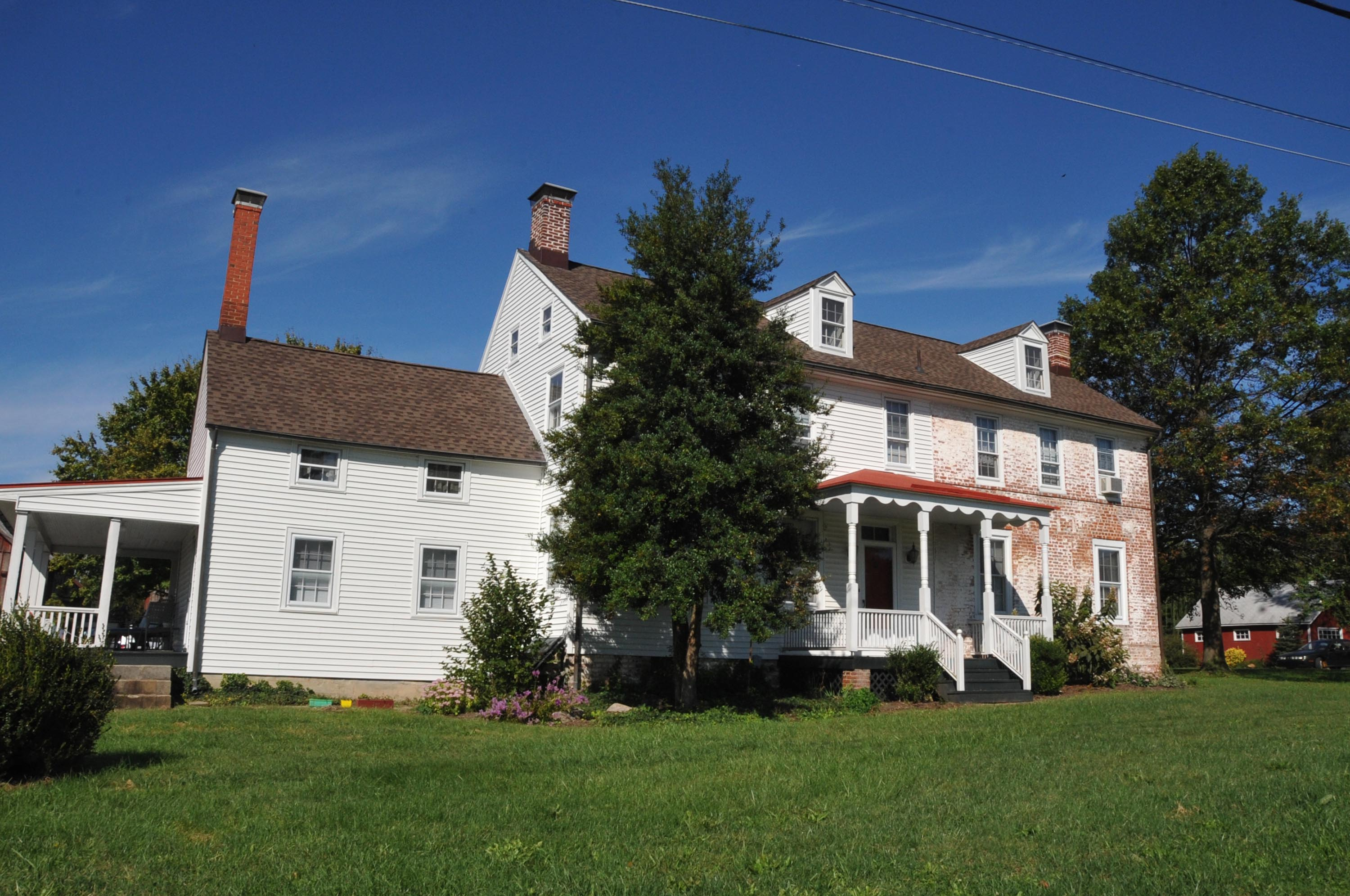 Comdr. Thomas MacDonough House; BOYHOOD HOME OF VICTOR OF THE BATTLE OF LAKE CHAMPLAIN. LOCATED ON U.S. 13 NEXT TO A DELAWARE STATE HISTORICAL MARKER